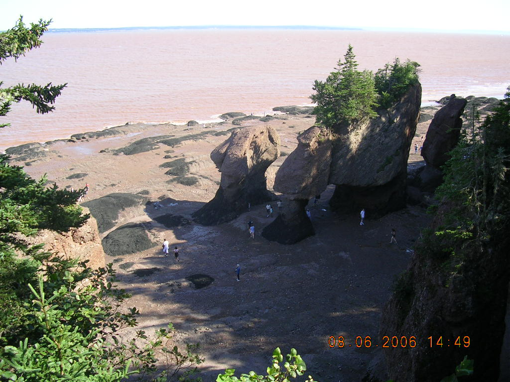 Hopewell Rocks during low tide. New Brunswick.